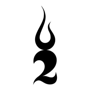 The Logo of Two Step From Hell, an American Music Company